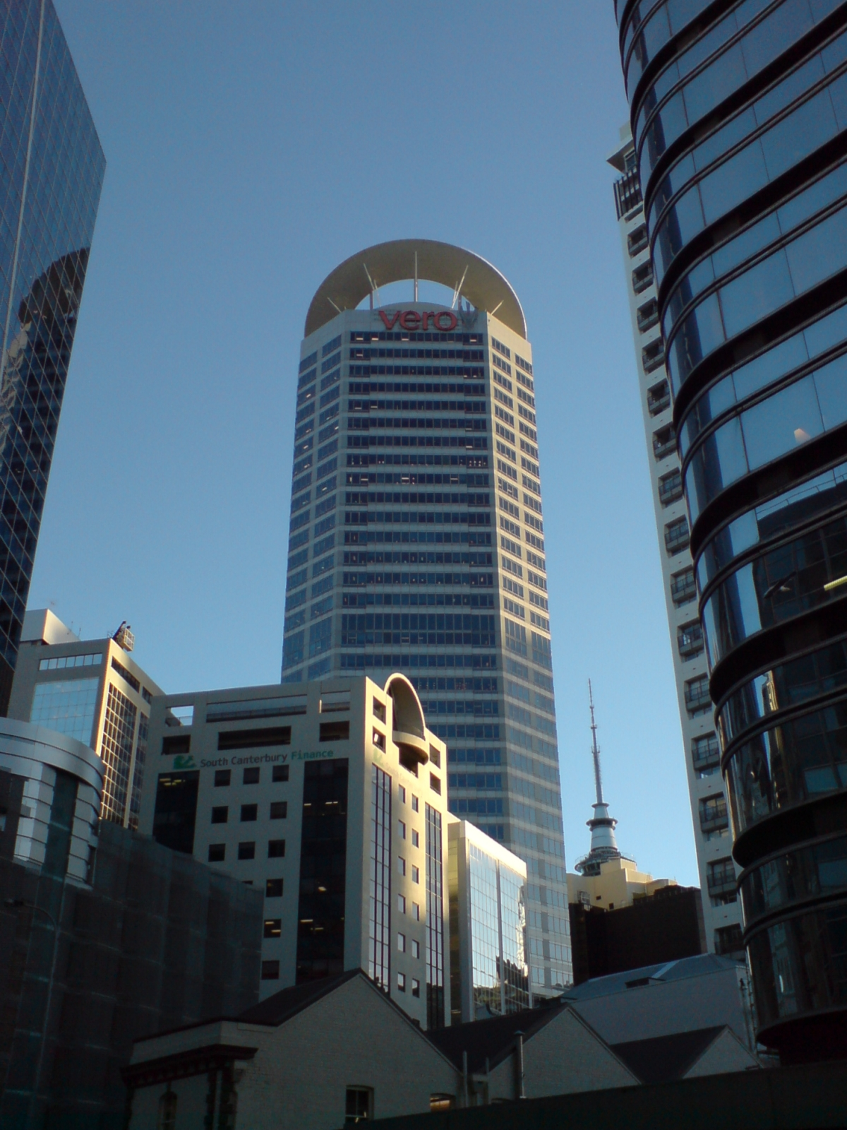 The Vero Centre skyscraper in the Auckland CBD, New Zealand. The Sky Tower is visible in the lower right.